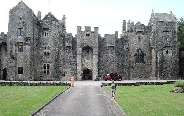 Compton Castle in DevonNote that I have lightened the image, slightly altered the vertical perspective and cloned out two figures in the foreground.